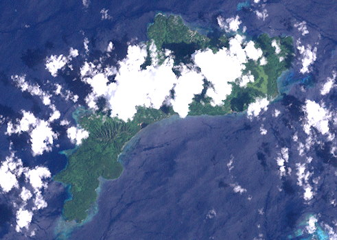 This image (Landsat7) shows Lou Island, Admiralty Group, Papua New Guinea.